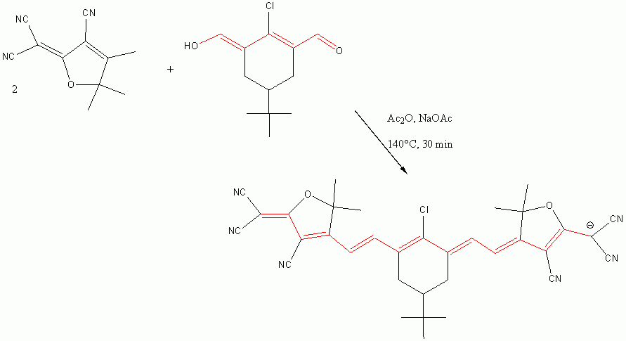 synthesis of anionic polymethyne from oxonol